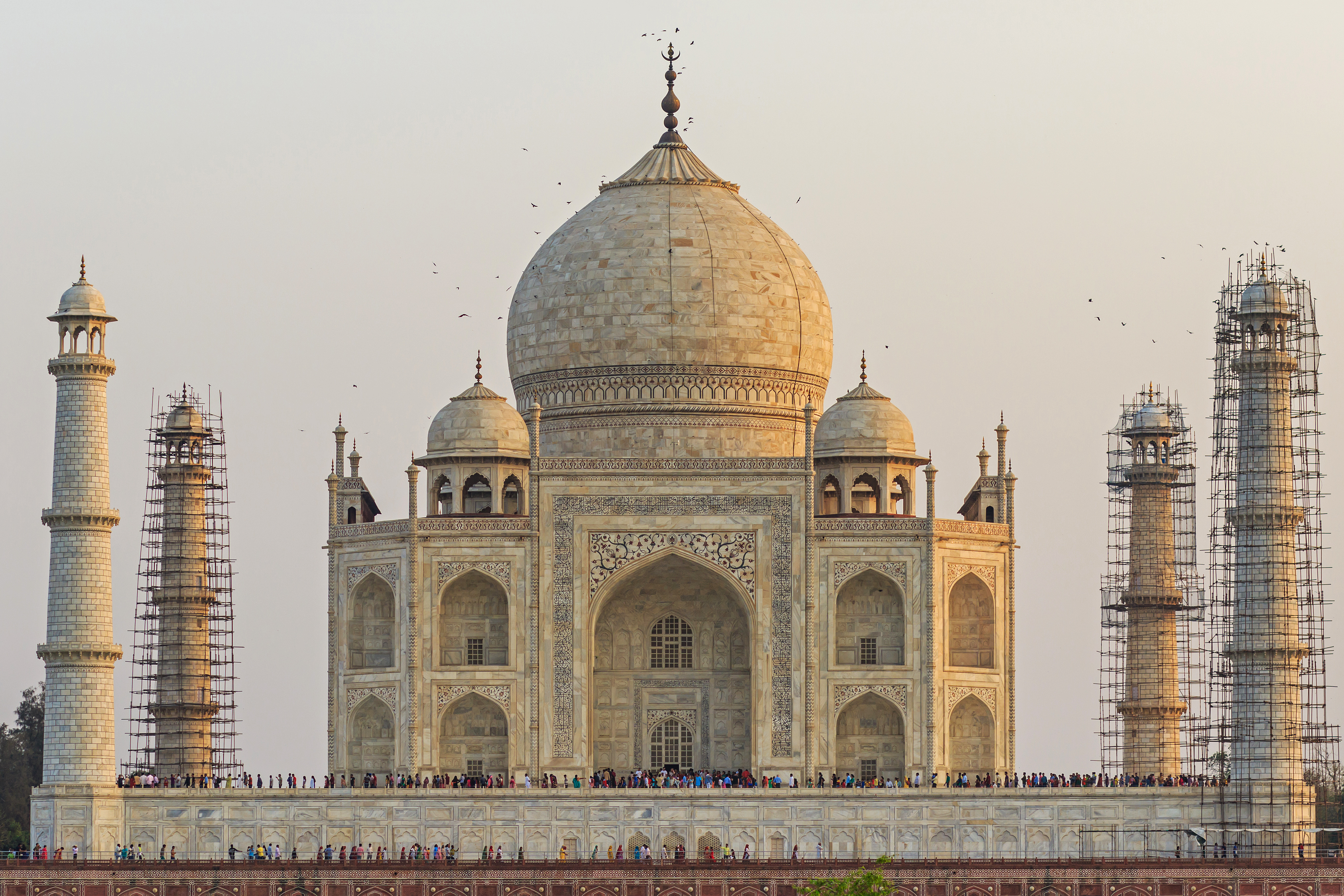 View from Mehtab Bagh gardens towards Taj Mahal complex in Agra, India.